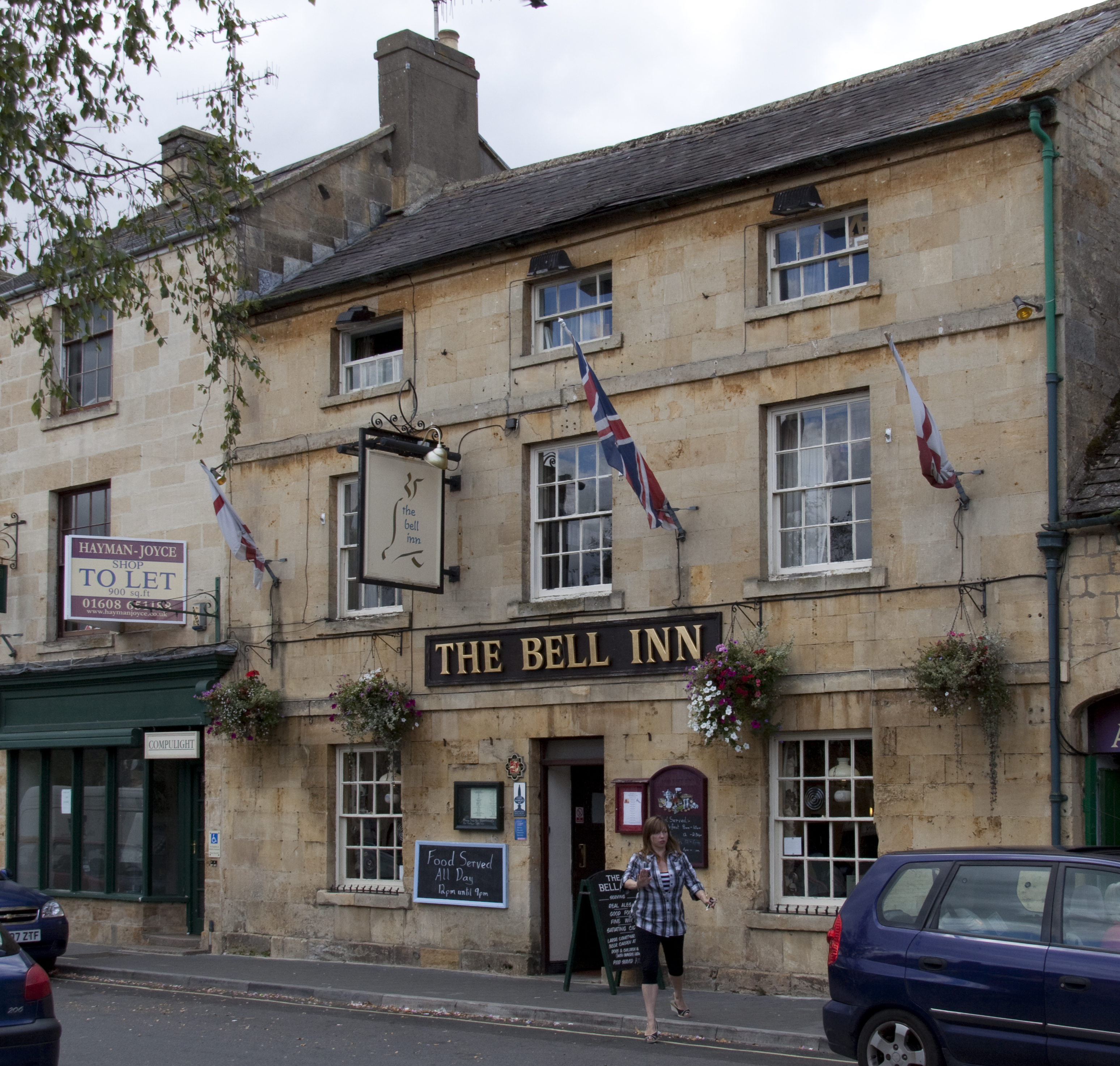 The Bell Inn probably built in the first half of the 19th Century